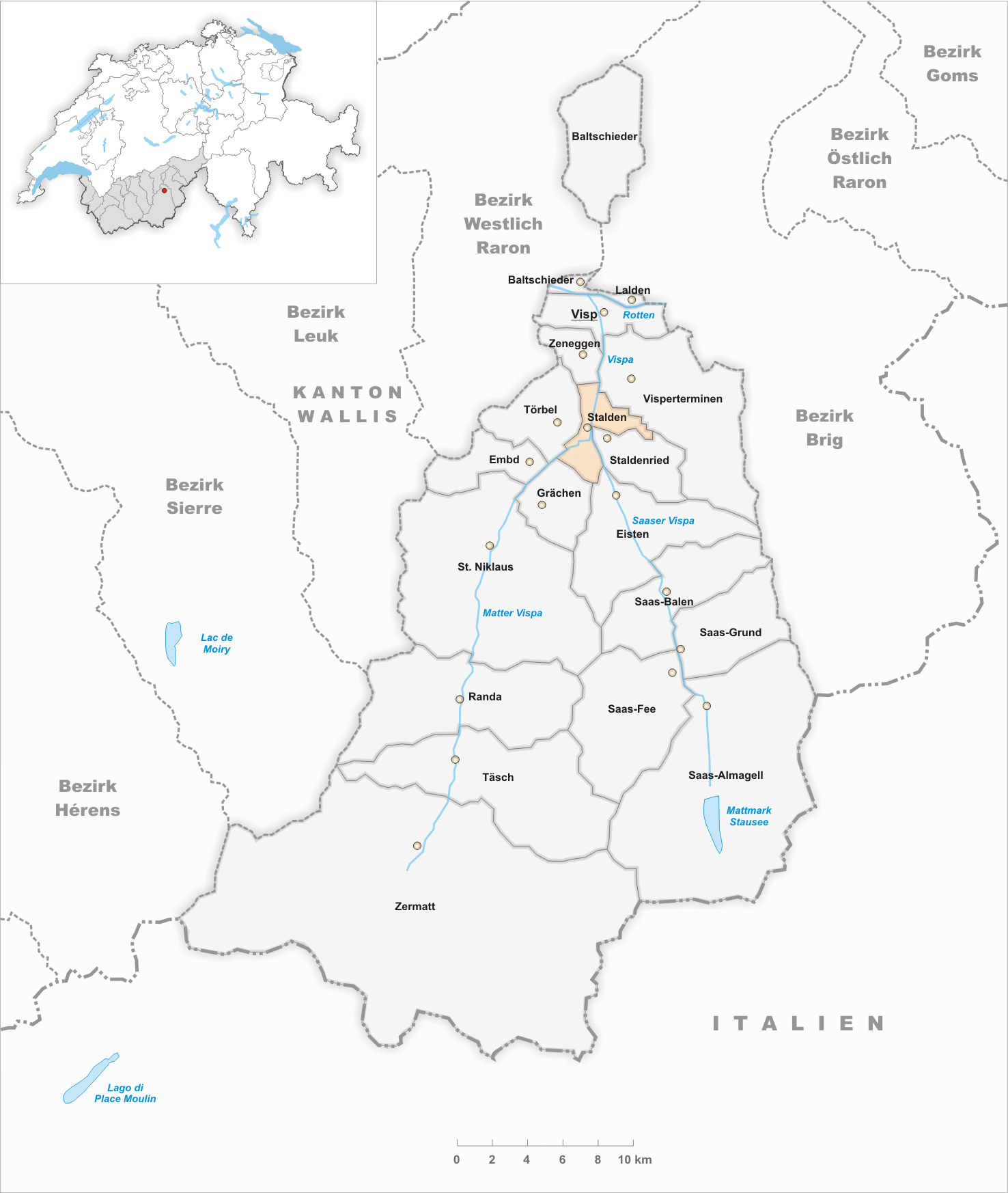 Municipality Stalden